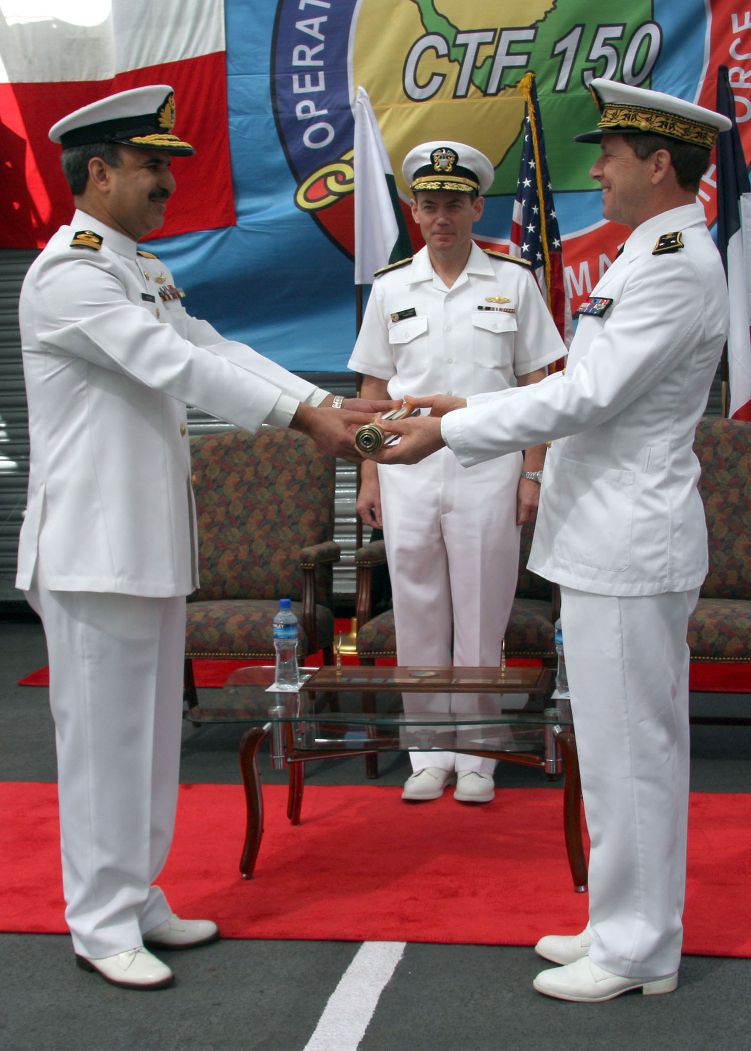 Pakistani Cdre. Khan Hasham Bin Saddique (left) hands a spyglass to French Navy Rear Adm. Jean L. Kerignard (right) during a change of command ceremony aboard PNS Tippu Sultan (D 186) in which Kerignard relieved Hasham as commander, Combined Task Force 150, Feb. 25. The ceremony concluded the Pakistan navy's second successful command of CTF 150, which conducts Maritime Security Operations in the Gulf of Aden, Gulf of Oman, Persian Gulf, Red Sea and the Indian Ocean. CTF 150, established toward the beginning of Operation Enduring Freedom, is comprised of warships from numerous coalition nations, including France, Germany, Pakistan, United Kingdom and the U.S. MSO help set the conditions for security in the maritime environment and complement the counterterrorism efforts in regional nations' littoral waters. Coalition forces also conduct MSO under international maritime conventions to ensure security and safety in international waters so that commercial shipping and fishing can occur safely in the region. (U.S. Navy photo/Petty Officer 2nd Class Edward Vasquez)